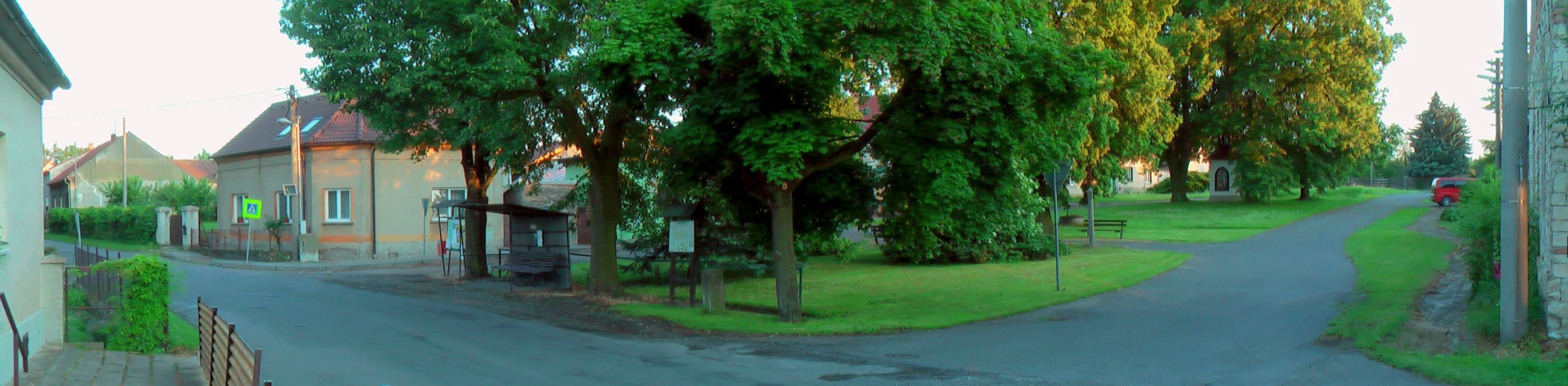 Nová Studnice (part of Hradečno in Kladno District, CZE)